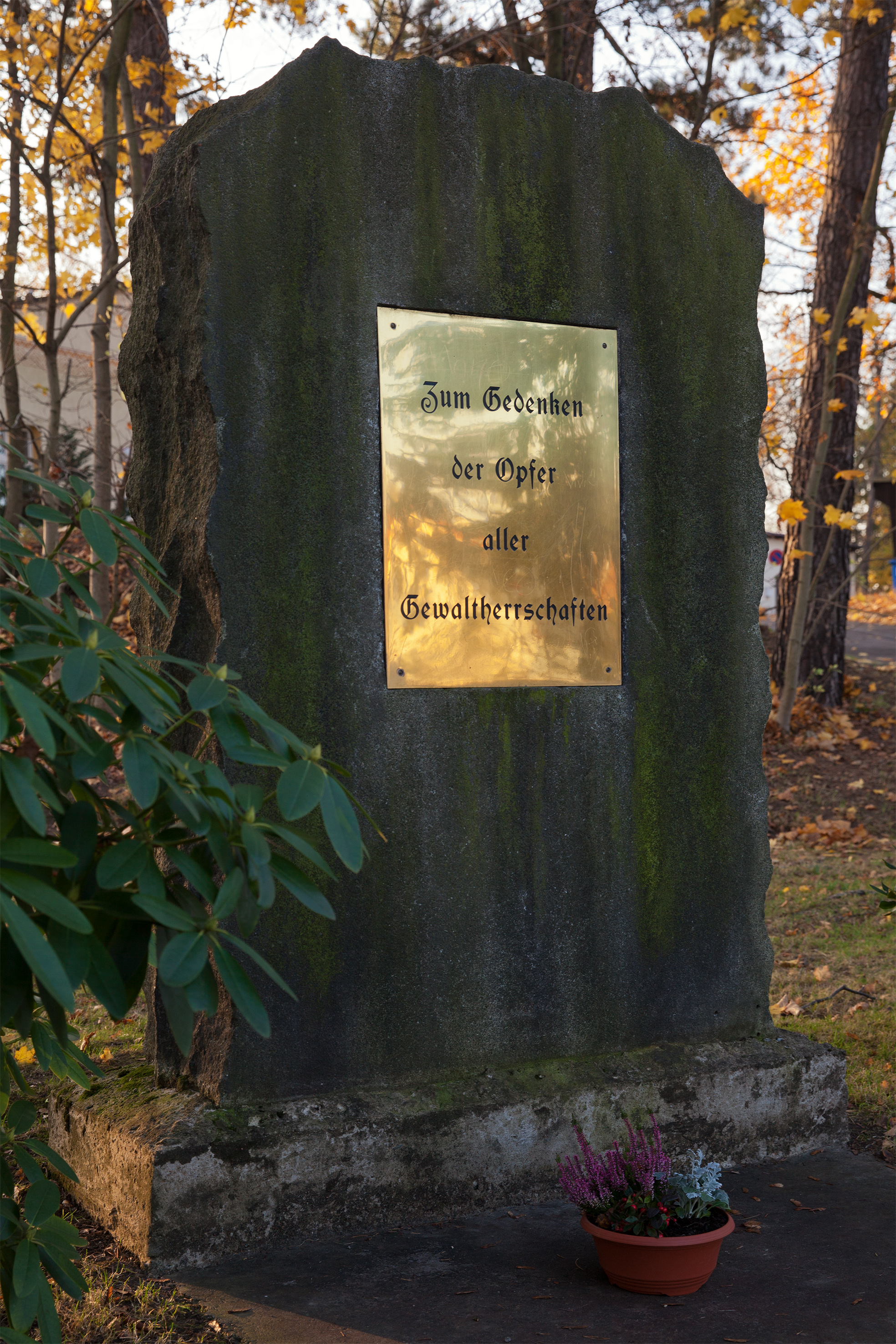 Brand-Erbisdorf, monument to the victims of dictatorships